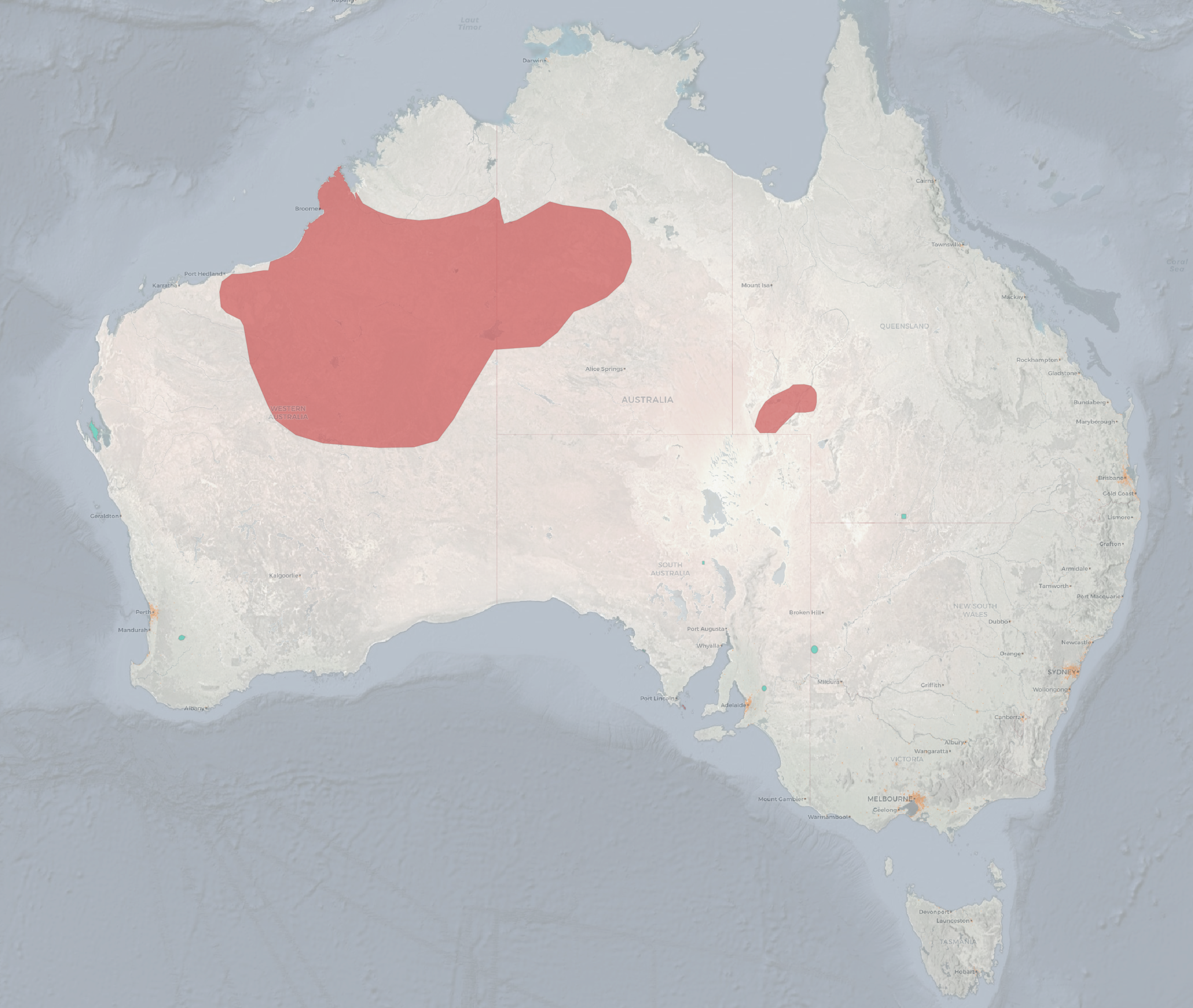 The Bilby's Distribution Map.